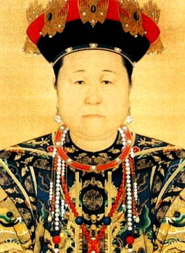 Empress Dowager Xiaozhuang, mother of Emperor Shunzhi of Qing dynasty